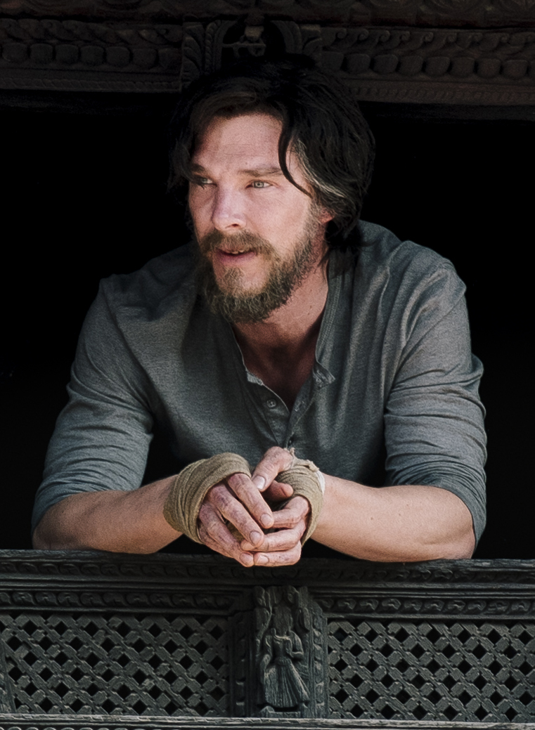 Benedict Cumberbatch in Kathmandu on the set of Doctor Strange.